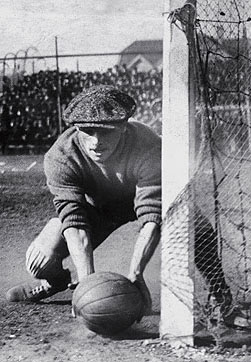 This is a photograph of Americo Tesoriere taken during his time with Boca Juniors in Argentina. He played his last game for the club in 1927 and died in 1977